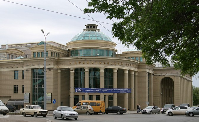 Drama theatre. Orenburg